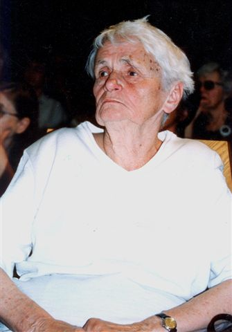 W:pl: Barbara Skarga (1919-2009), Polish philosopher and essayist